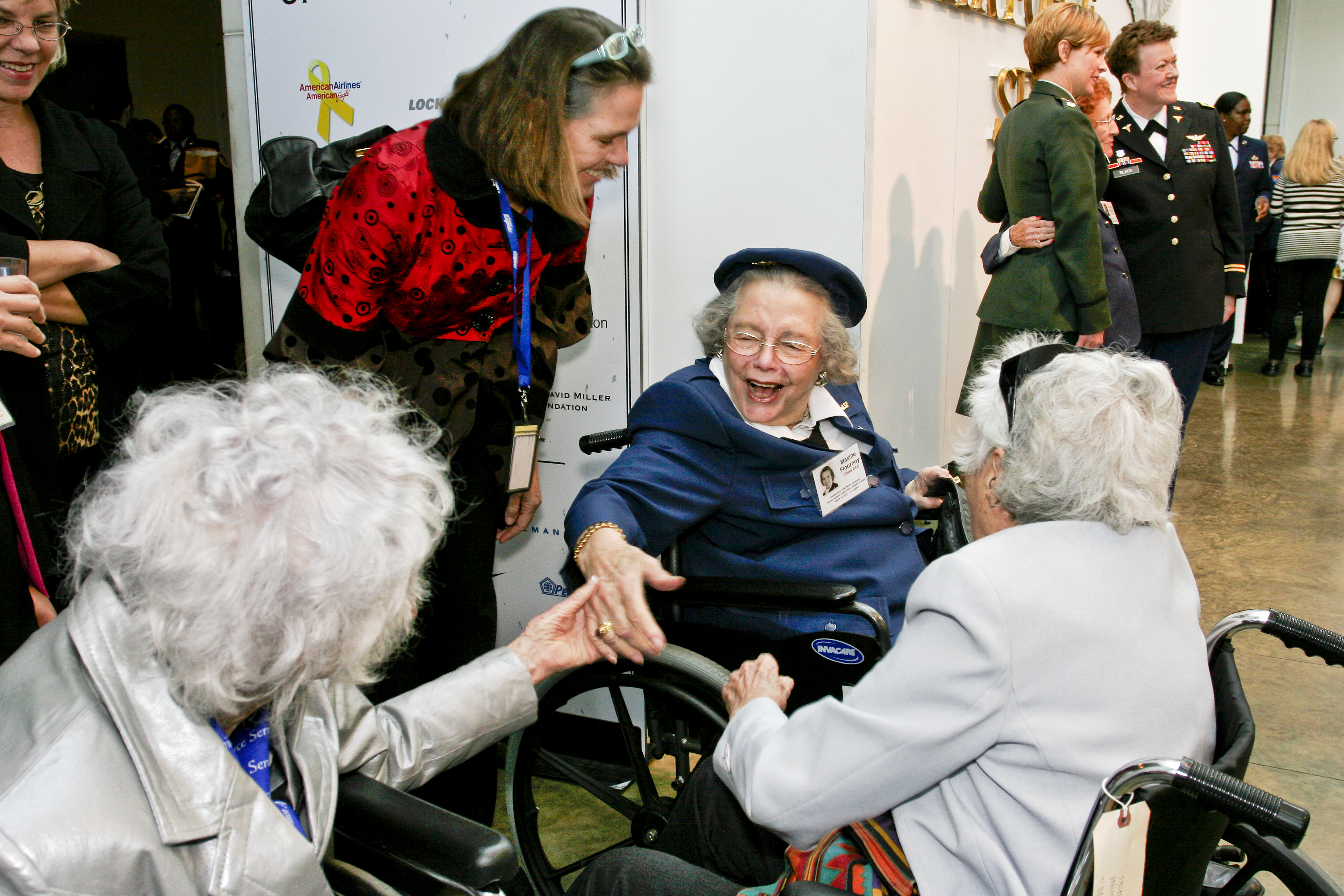 Maxine Flournoy reconnects with other World War II women pilots who flew with the Women Airforce Service Pilots at a reception to honor all 1,102 of the service pilots at the Women in Military Service for America Memorial at Arlington National Cemetery, Va., March 9, 2010.